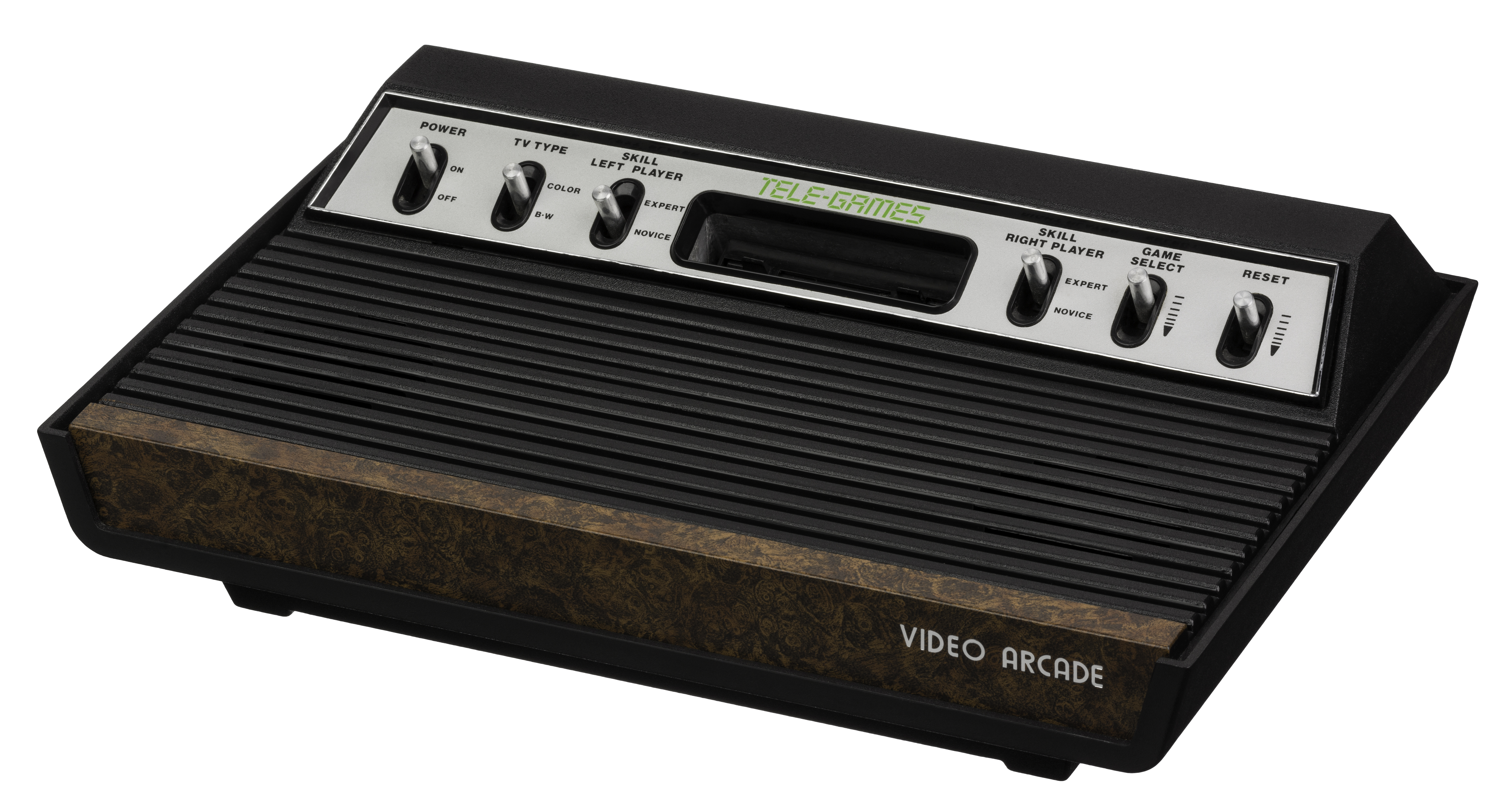 The Atari 2600, a video game console released by Atari in 1977. Originally called the Atari Video Computer System, the system was the most popular gaming console of the late '70s and early '80s. This model is the Sears Tele-Games branded model, which was released early in the 2600's life and featured 6 switches.